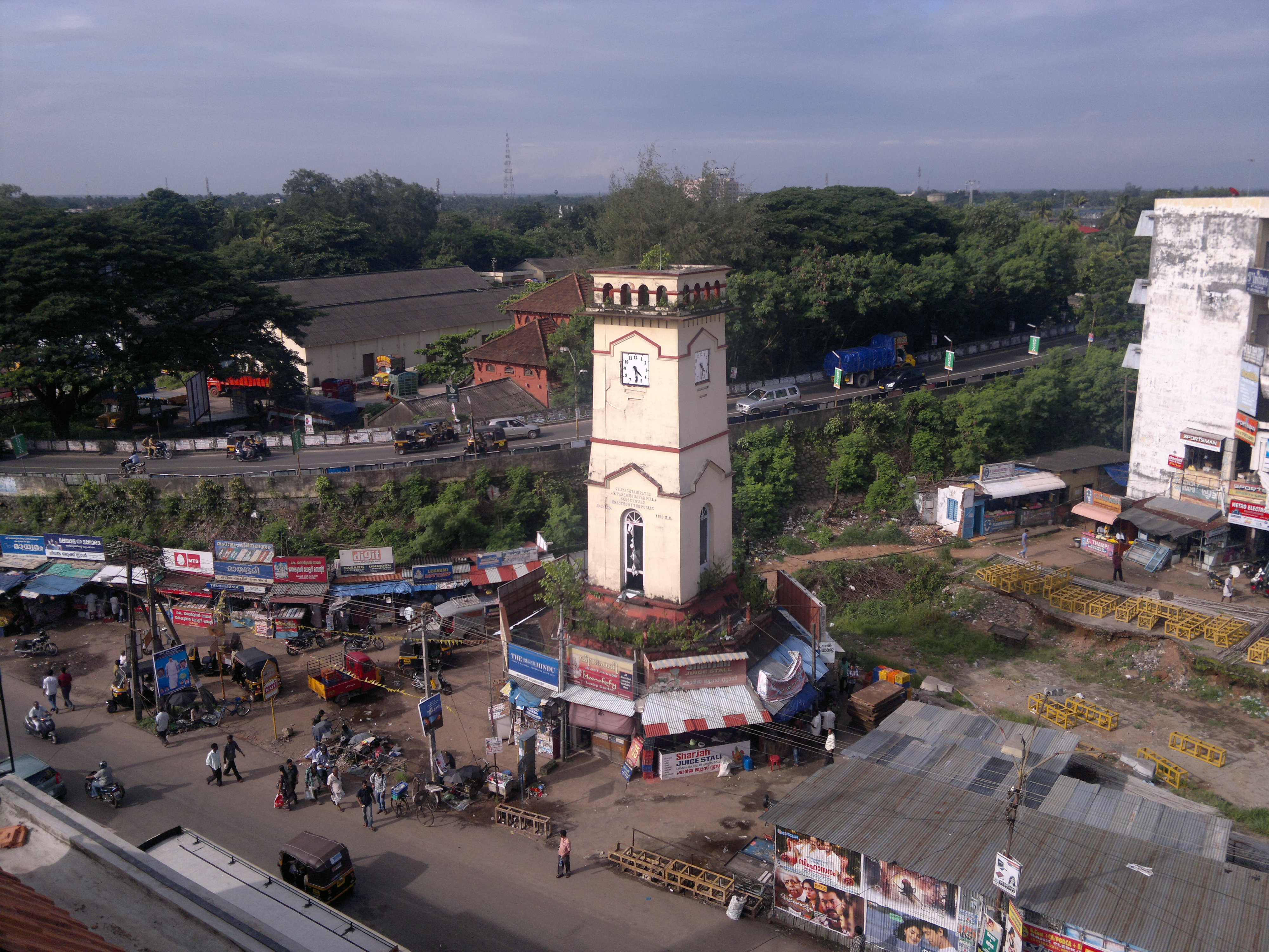 Bears the description "Rajyasevaniratha G. Parameswaran Pillai Clock Tower, Erected by the public. 1944 AD, 1119 ME. Located at Chinnakkada, Kollam. Photo taken by Dr. Ajay B on 12/7/12